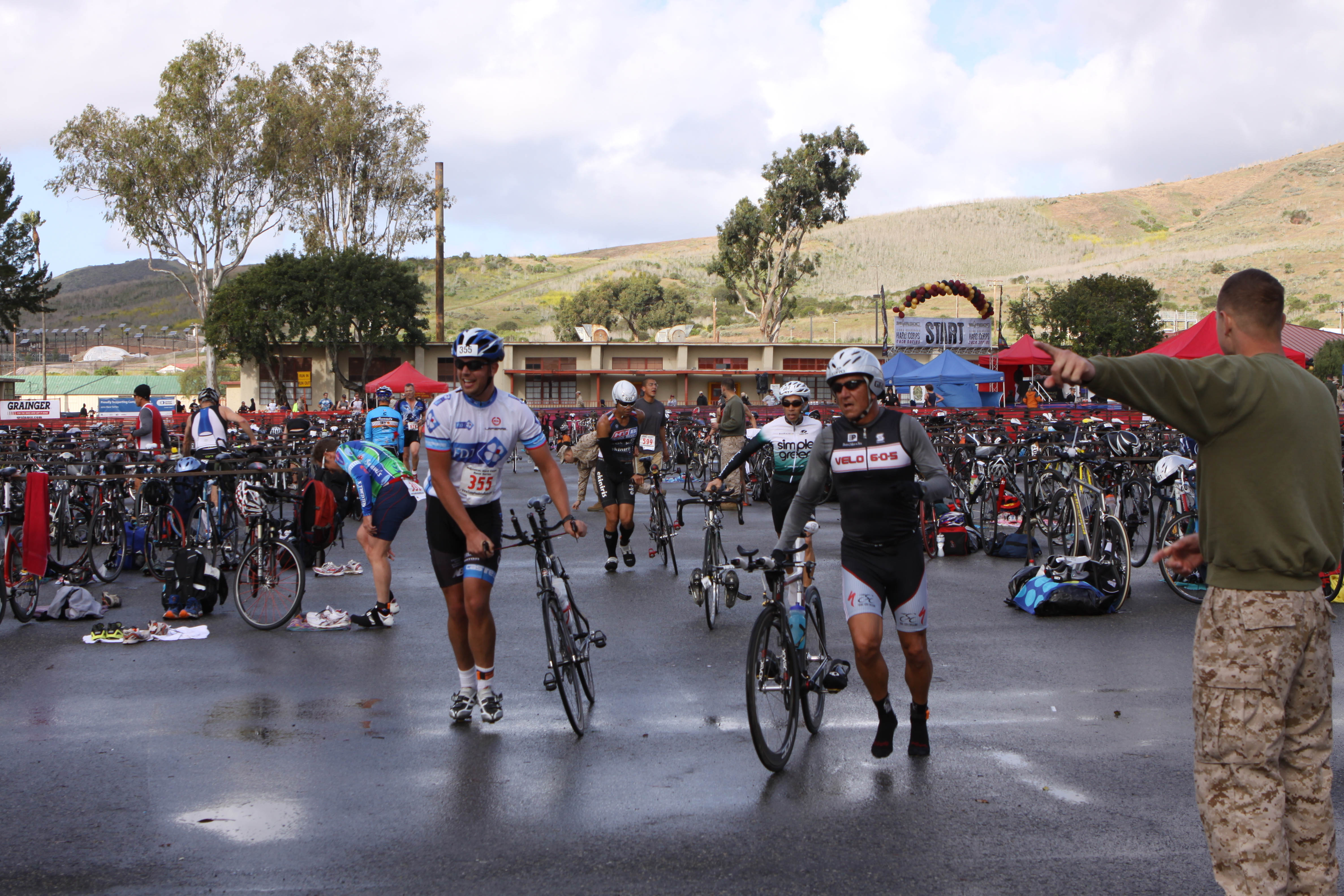 Participants run to exit the run to bike transition area to mount their bikes and begin the 30k cycling, during the Devil Dog Duathlon at Camp Pendleton, Calif., April 14.